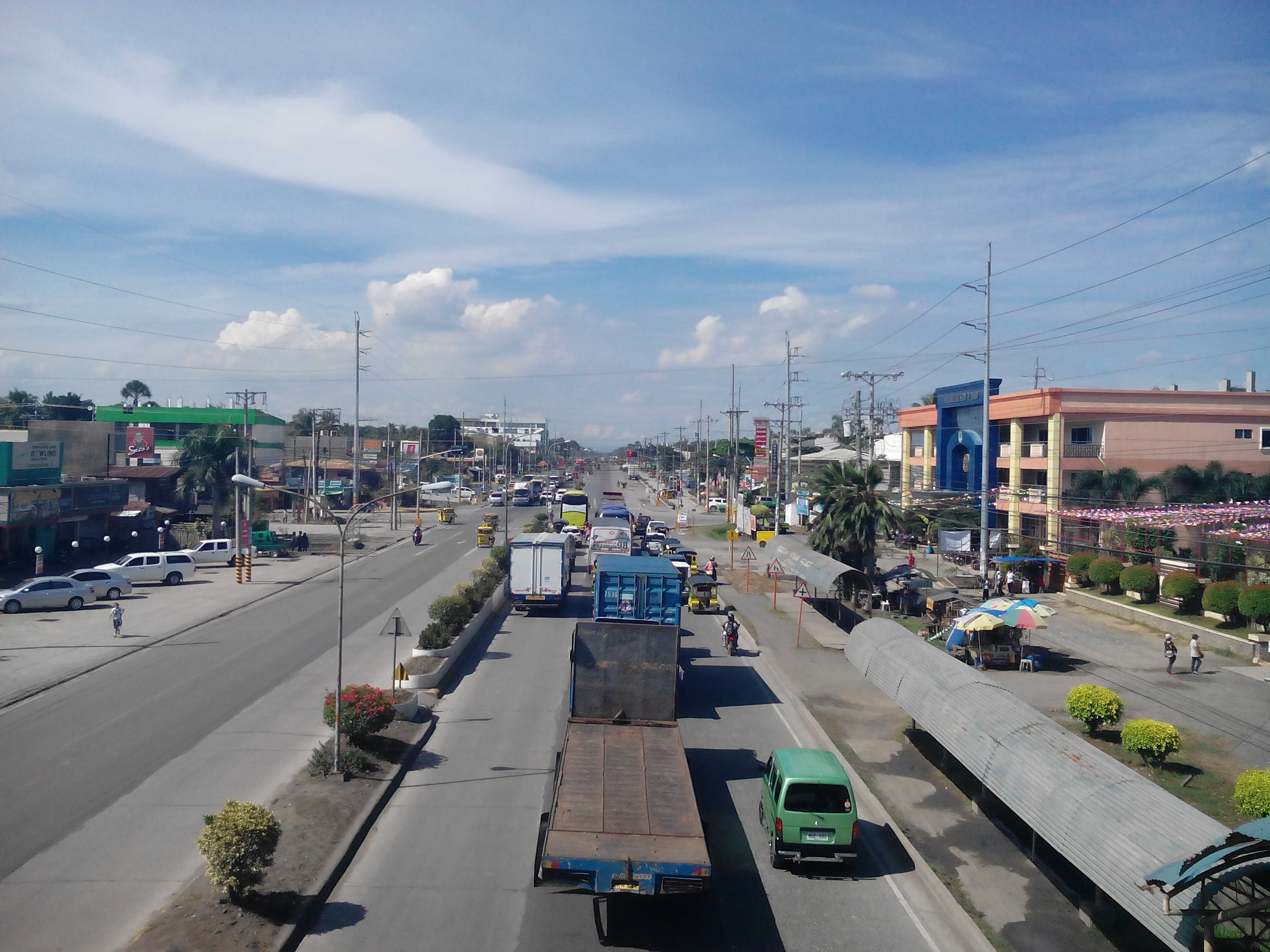 Skyline of Panabo City highway heading to Tagum City with the main junction crossroad (left going to Sto. Tomas, right going to Panabo International Seaport)